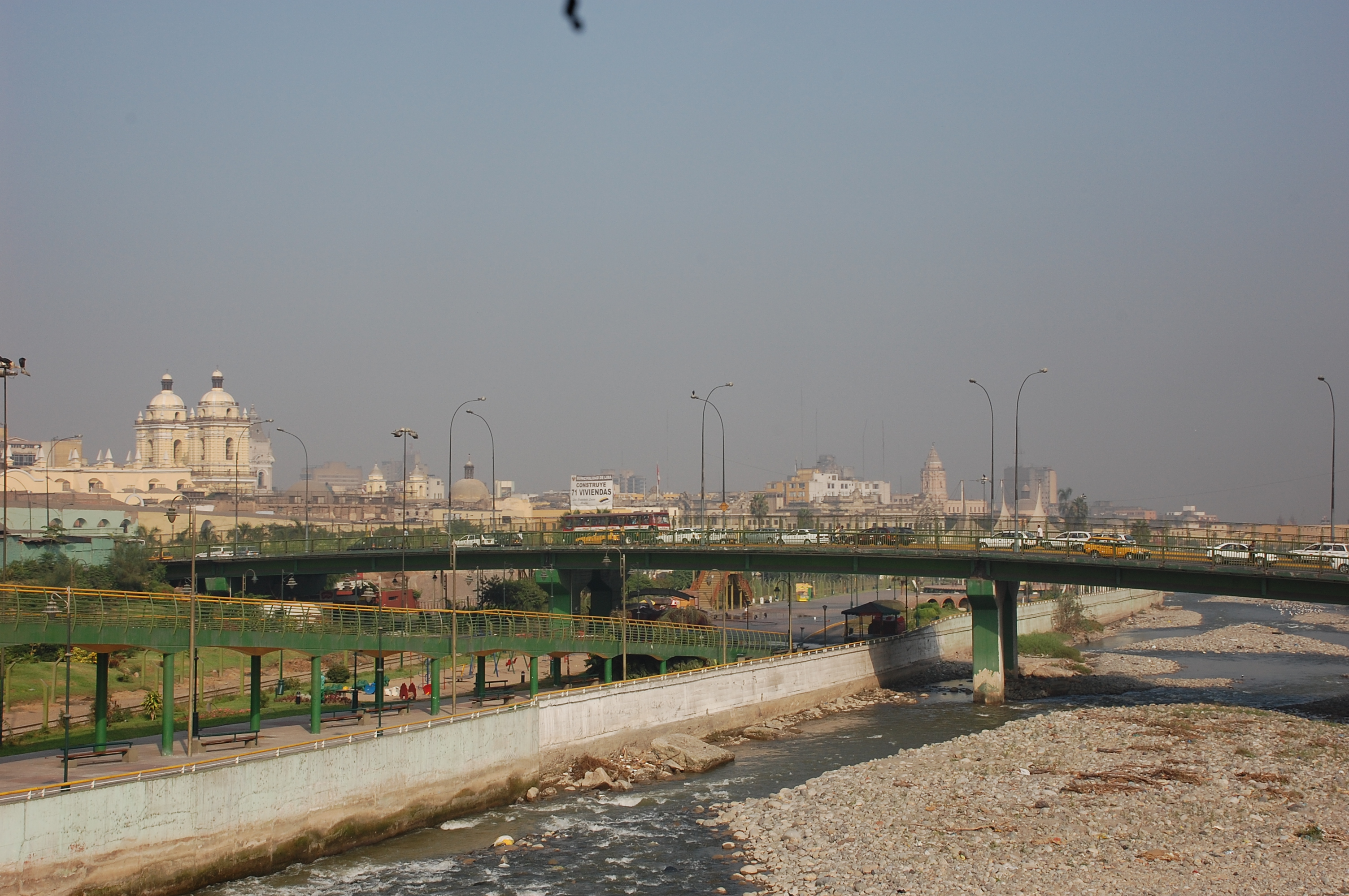 Lima from the bridge